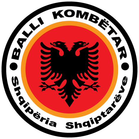 Balli Kombetar, an albanian nationalist party